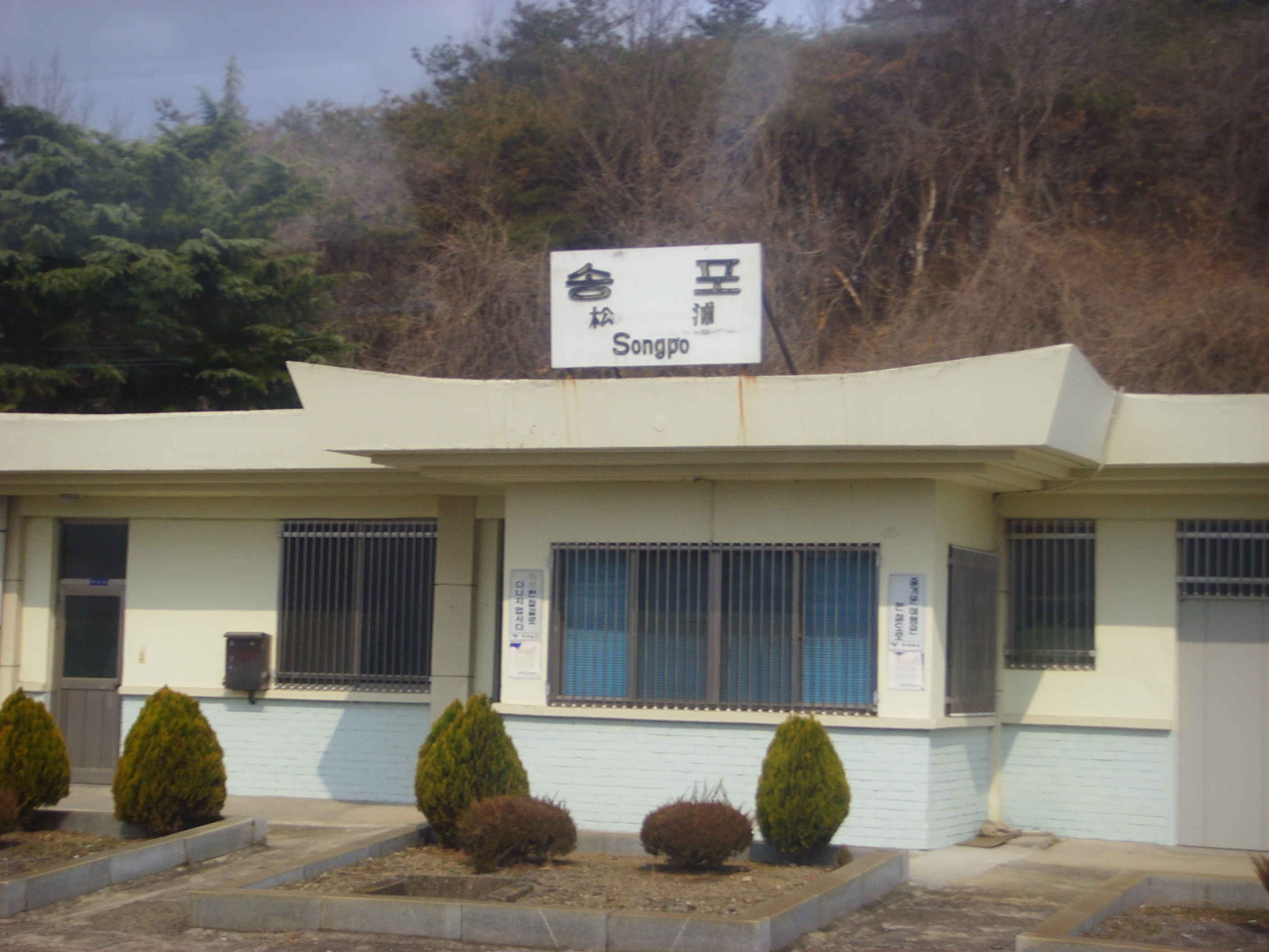 Jungang Line Songpo Station